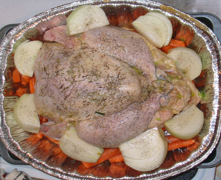 I took this picture of a Capon, prior to roasting it. Anyone may use it.